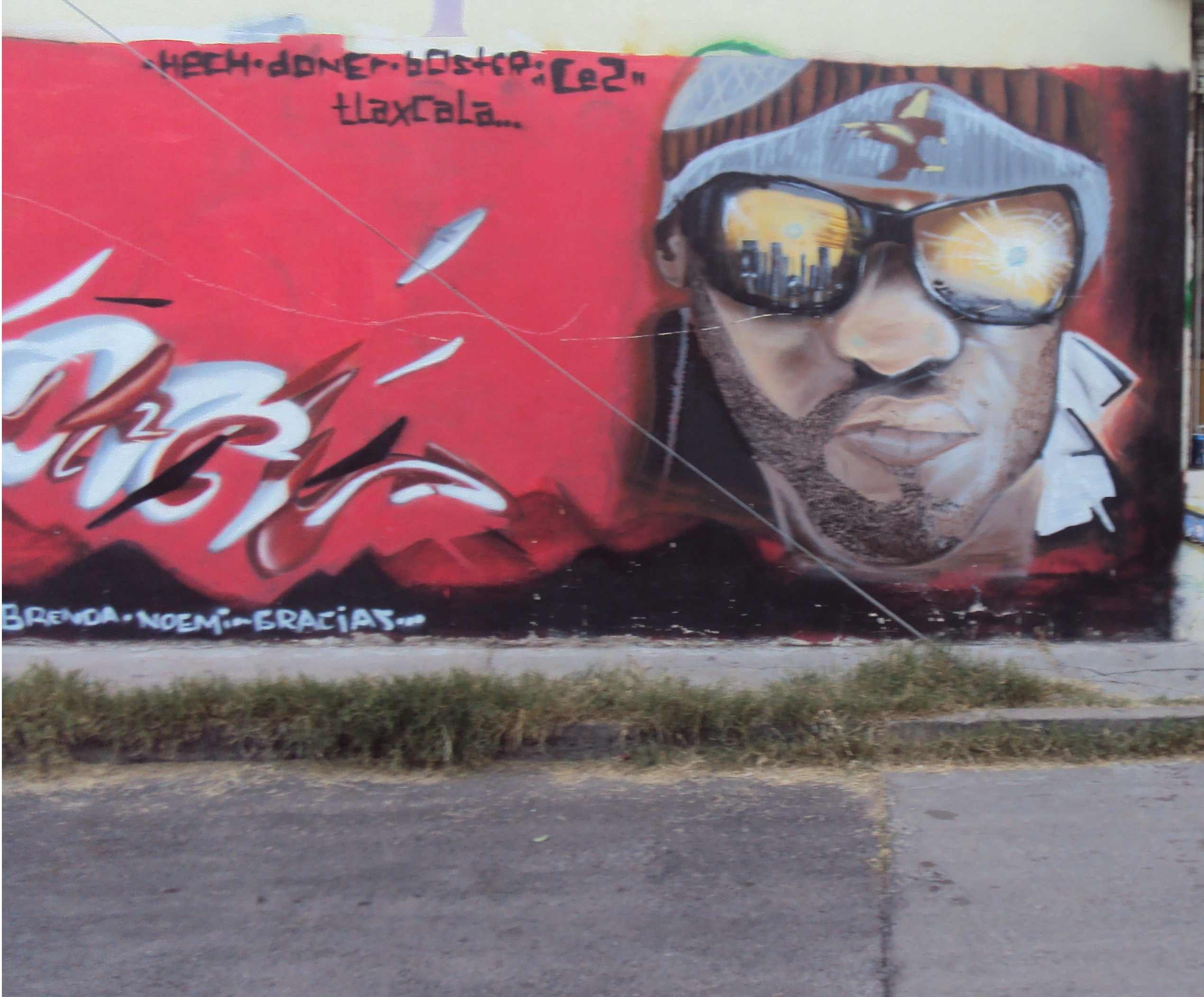 Graffiti of the character Hancock, drawn on the wall in a public street, in Celaya, Guanajuato (México)